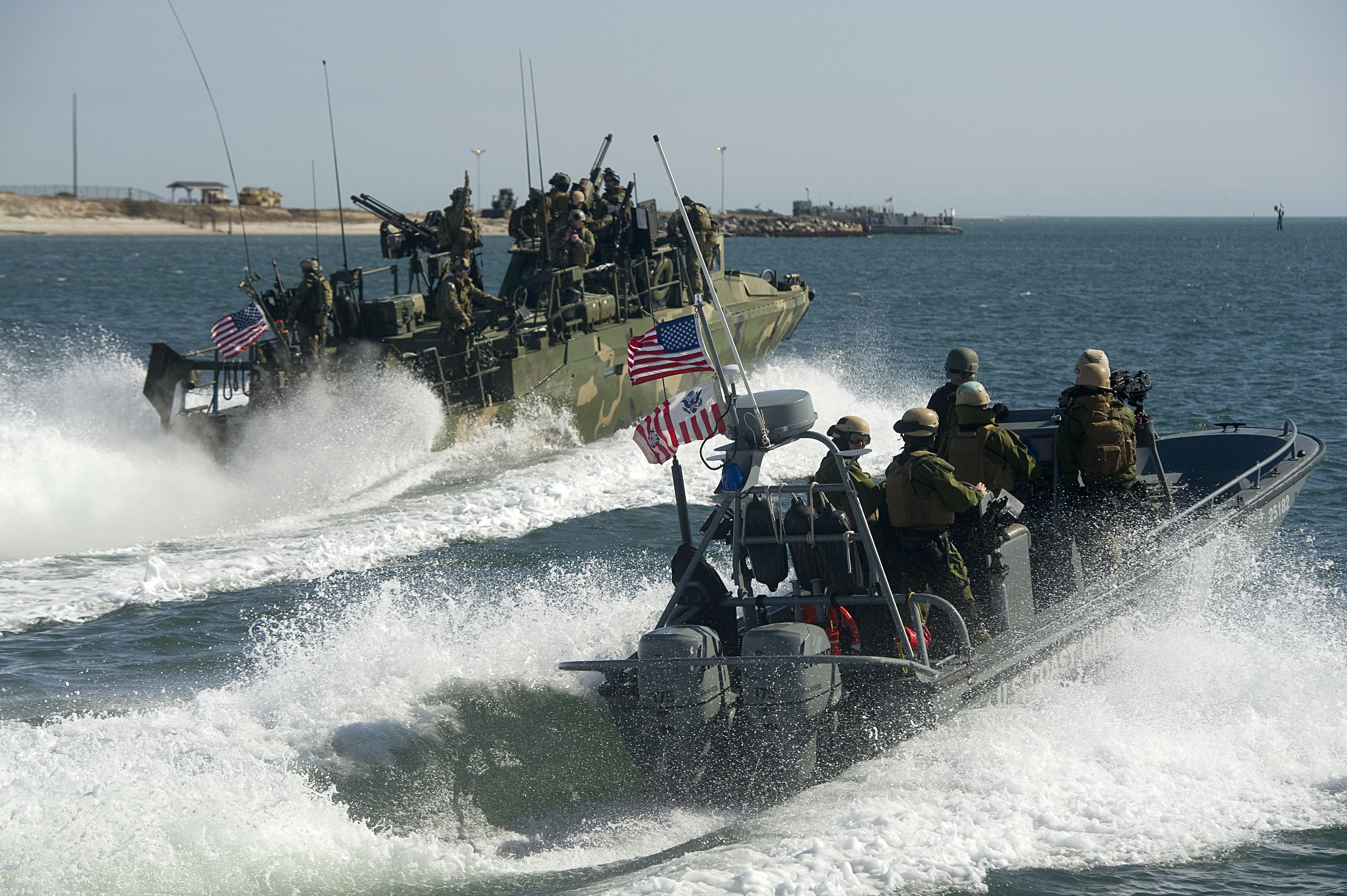 CAMP LEJEUNE, N.C. (Feb. 1, 2012) Coast Guard transportable port security boats attached to Port Security Unit 308 and riverine command boats from Riverine Squadron (RIVRON) 2 practice maneuvers together in the Intracoastal Waterway in North Carolina, during Exercise Bold Alligator 2012. Bold Alligator is the largest naval amphibious exercise in the past 10 years and represents the Navy and Marine Corps' revitalization of the full range of amphibious operations. The exercise focuses on today's fight with today's forces, while showcasing the advantages of seabasing. The exercise will take place Jan. 30 through Feb. 12, 2012, afloat and ashore in and around Virginia and North Carolina. (U.S. Navy photo by Mass Communication Specialist 1st Class Richard Brunson/Released)